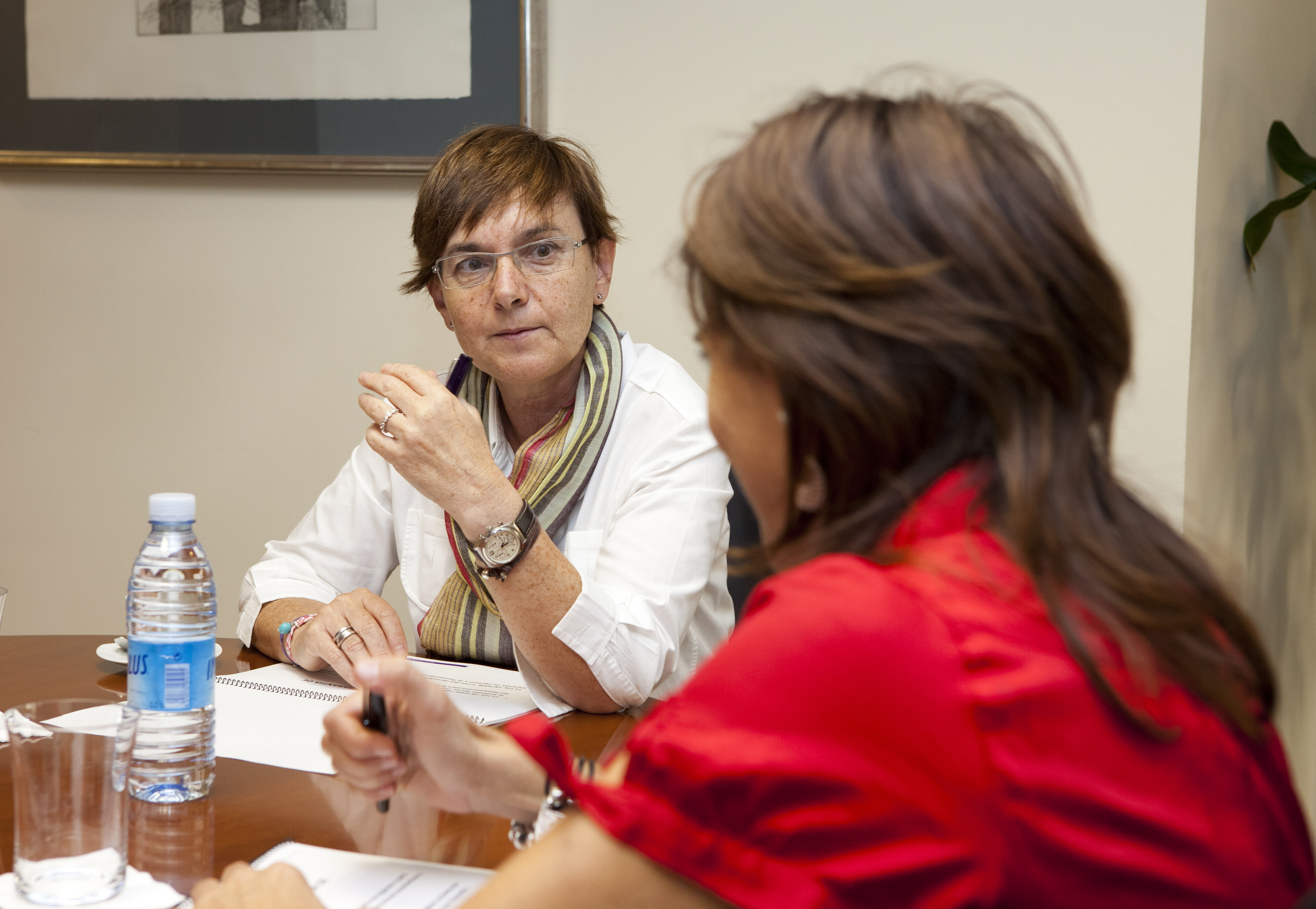 Gemma Zabaleta, politician of PSE-EE party.